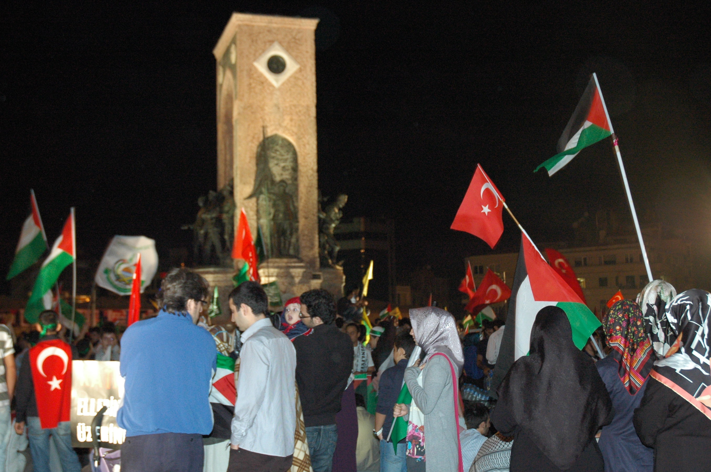 People waving palestinians flags in front of the Cumhuriyet Anıtı, Taksim square